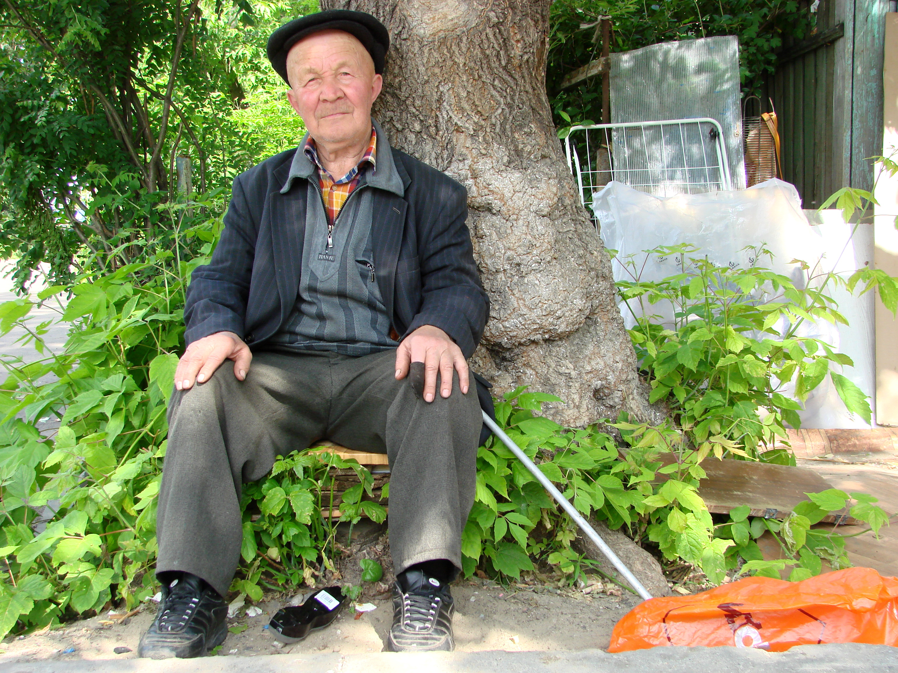 Elderly Tatar man in Kazan, Russia. June 2008.